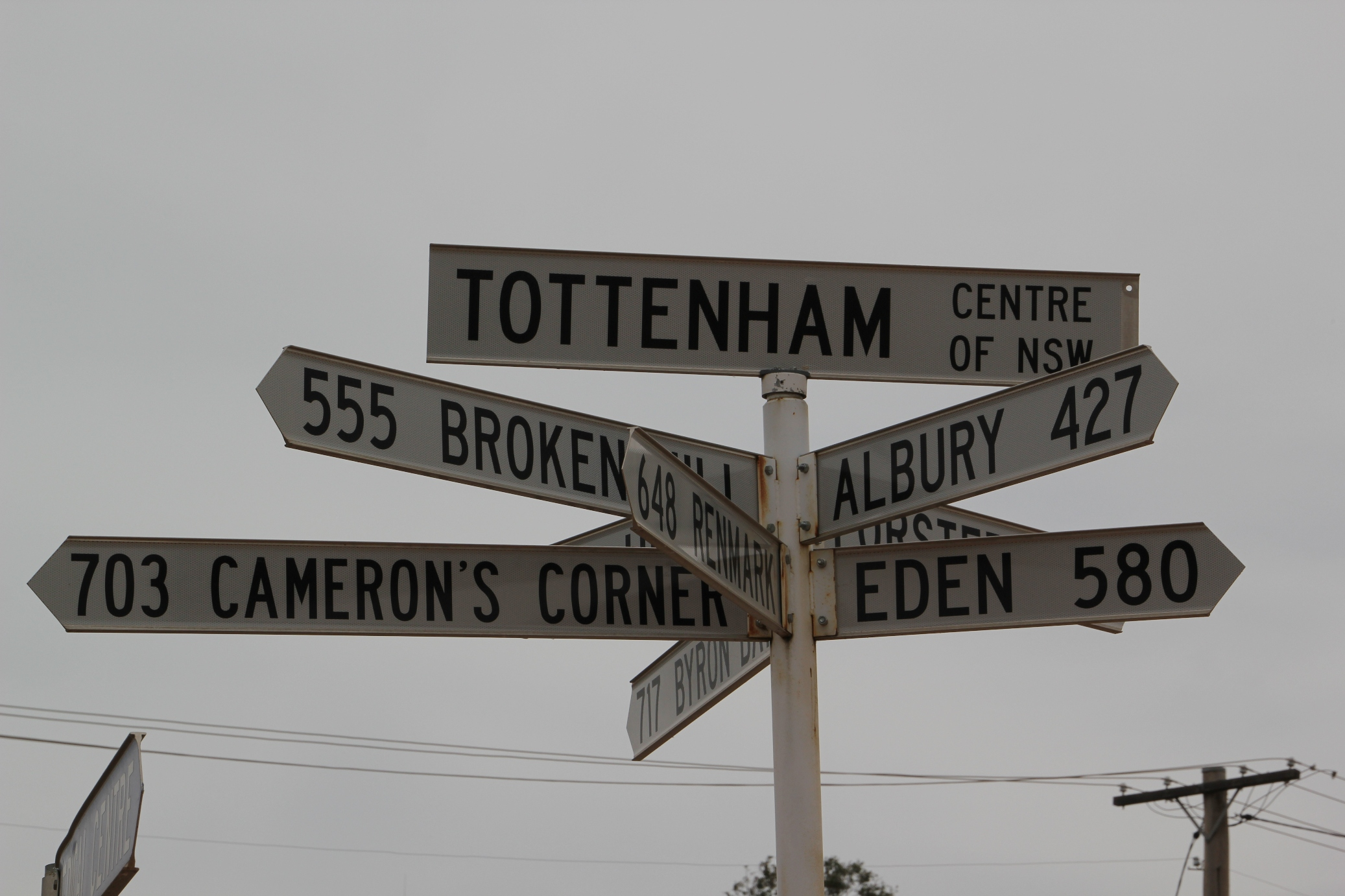 Claimed the most geographically central town in New South Wales, Australia